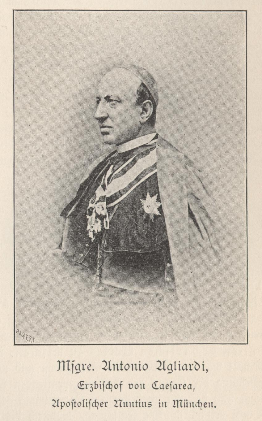 Cardinal Antonio Agliardi Nuntio in Munich